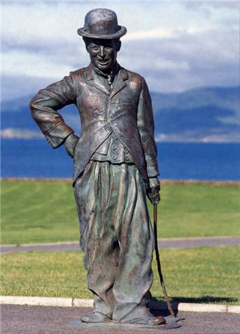 Bronze, life size Charlie; co-commissioned by the Chaplin estate and IRD Waterville Co. Kerry. It is the only official Statue shown to express his famous smile. Sculpted by Alan Ryan Hall, Valentia Island Co. Kerry. More details.